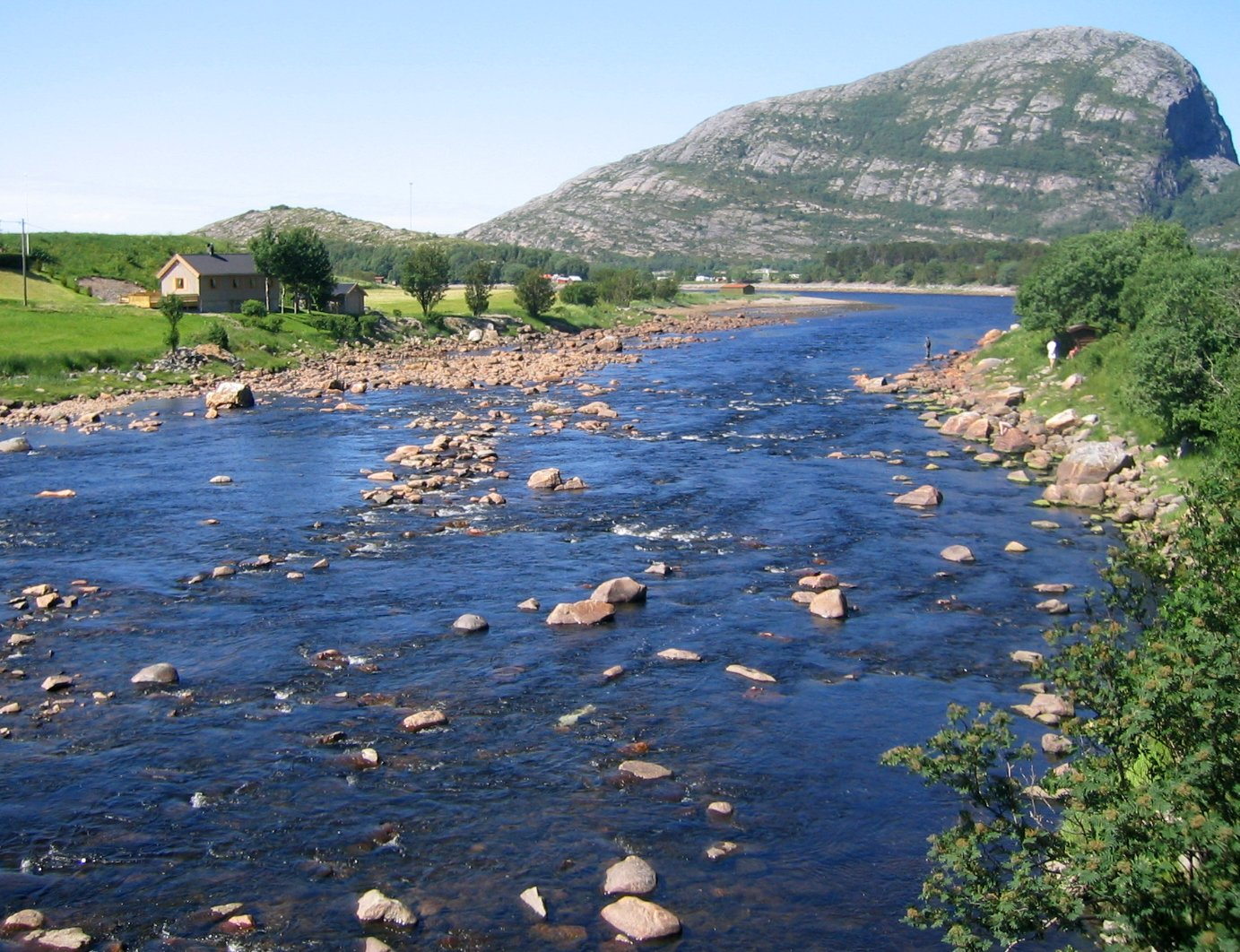 Steinsdalselva in Osen, Norway. Photographer: Einar Faanes Camera: Canon Ixus v3 Afterwork: Cutting and regulation of light and colour in the GIMP